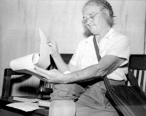 Nell Foster Rogers, 1953, Florida Photographic Collection